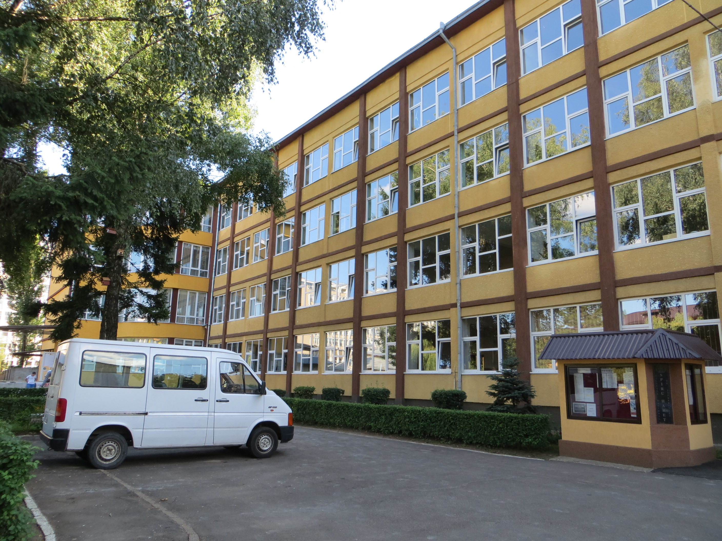 Spiru Haret Informatics National College in Suceava.